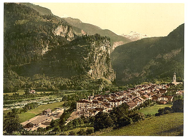 [Upper Engadine, Viamala, Grisons, Switzerland] Thusis in 1900